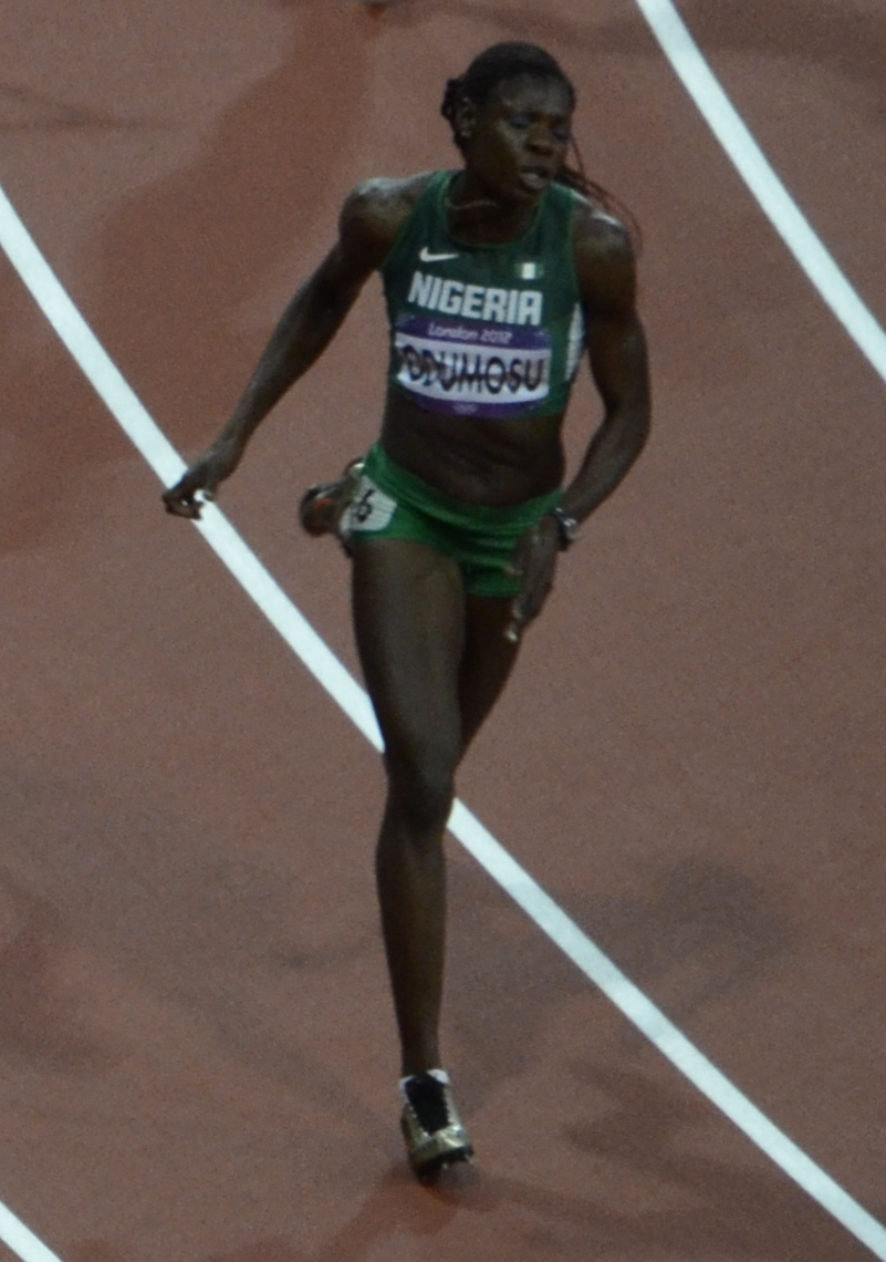 Muizat Ajoke Odumosu competing at the 2012 Summer Olympics